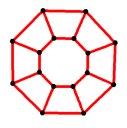 8-prism graph